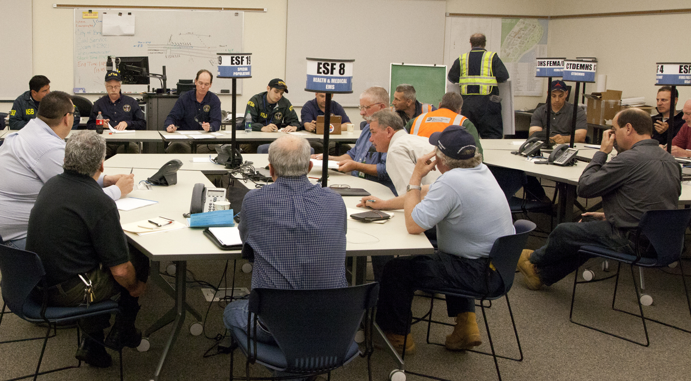 NTSB investigators identify and meet with parties to its investigations of the Metro North train accident in Connecticut.